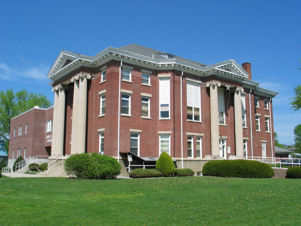 Exterior photo of the Hardy County, West Virginia courts building.